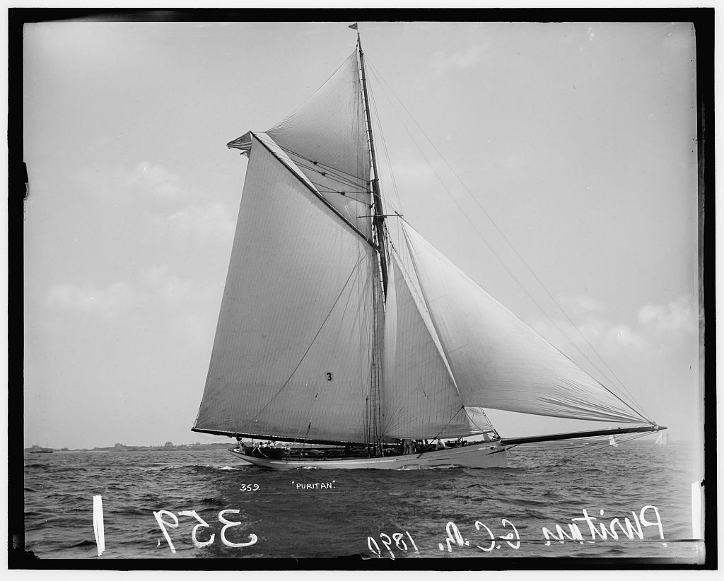 Johnston, John S.,, photographer. Puritan 1890. 1 negative : glass ; 8 x 10 in. Notes: Attribution based on style of title and numbering. "359" and "GCR" on negative. No Detroit Publishing Co. no. Gift; State Historical Society of Colorado; 1949. Subjects: Puritan (Yacht) Yachts. Goelet Cup race. Regattas. Format: Dry plate negatives. Repository: Library of Congress, Prints and Photographs Division, Washington, D.C. 20540 USA Part Of: Detroit Publishing Company Photograph Collection (DLC) 93845504 Higher resolution image is available (Persistent URL): Call Number: LC-D4-62490